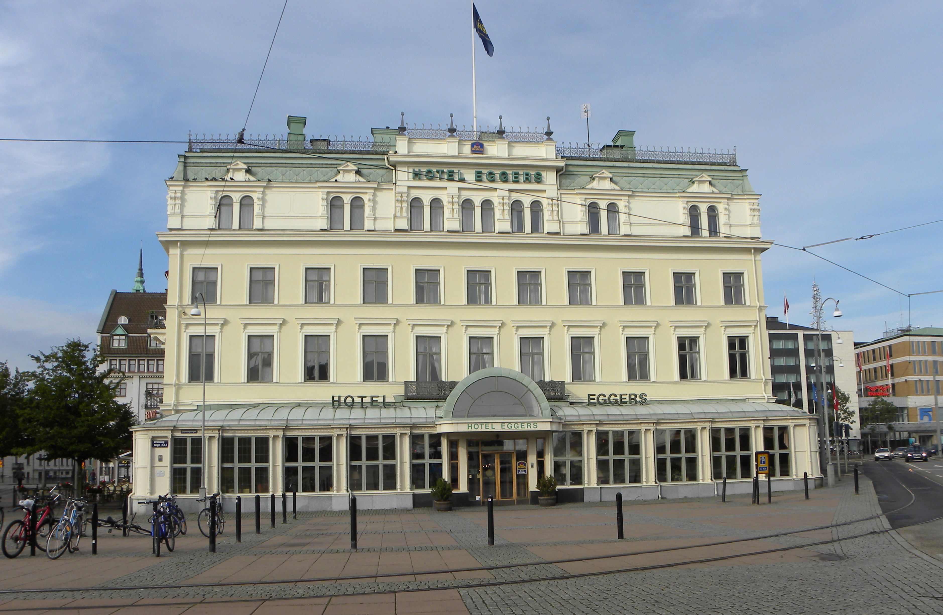 Hotel Eggers in Gothenburg.